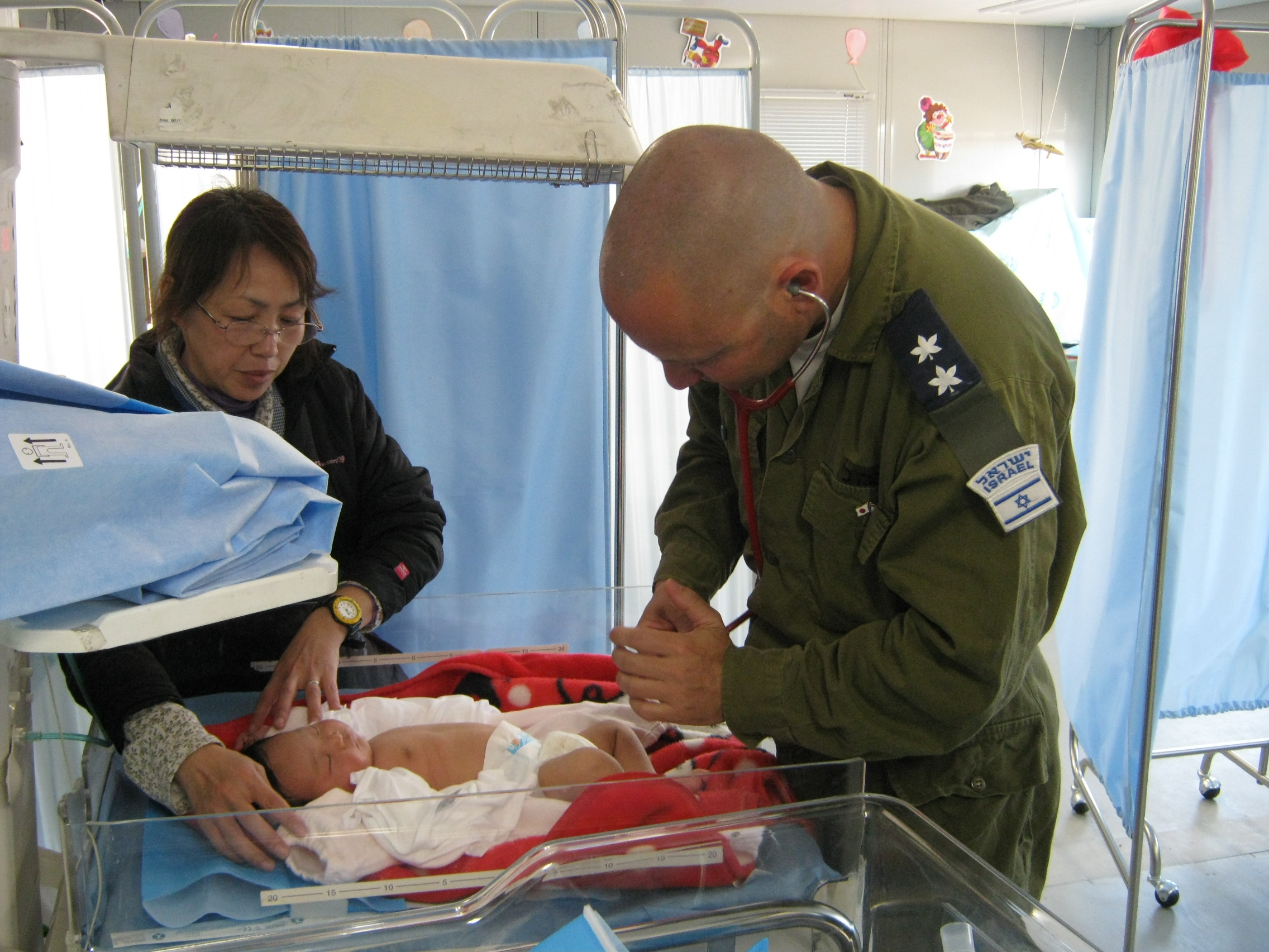 April 7, 2011 Yuki Satu, 24, a new mother staying at an aid population center in Minamisanriku, gave birth to a girl six weeks ago by a Cesarean section. Due to the tsunami, Yuki had been unable to go to a gynecologist for a follow-up examination for the six weeks since she had given birth. When Yuki heard about the Israeli medical aid delegation from friends in the population center and from media reports, she and her baby showed up at the IDF medical clinic. She was examined by Lt. Col. Mishe Pincrat, a gynecologist with the IDF delegation who found Yuki to be in good and stable condition. After which, the baby was examined by Lt. Col. Dr. Amit Assa, a pediatrician from the delegation who concluded the baby to be healthy and in a general good condition. Yuki, who deeply thanked the Israeli staff, and her baby were accompanied throughout the medical examination by Mora Tomoku, a local midwife who looks after all the pregnant women in the Minamisanriku area. Mora checks up on the women by visiting each individual woman's home along with the gynecologist and midwife of the IDF aid delegation. Since the arriving to Japan, the delegation doctors have treated 18 new mothers in follow-up examinations. Pictured: Lt. Col. Dr. Amit Assa and Mora